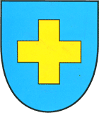 Krzyżowice COA